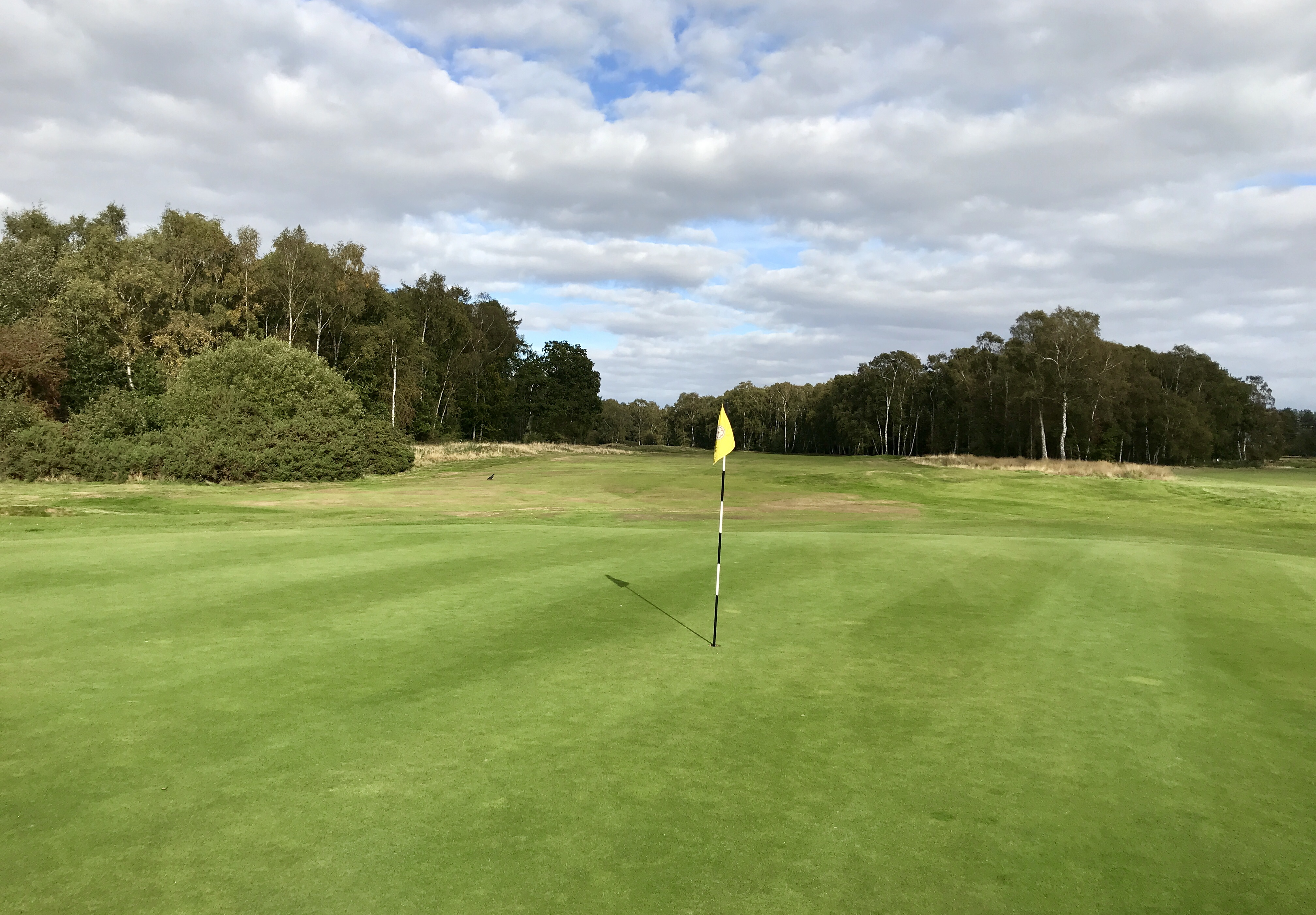 Hole 14 From Green